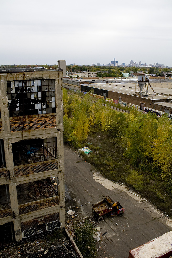 The infamous dump-truck, which was unceremoniously launched out of a fourth-floor level of the former Packard plant in Detroit, Michigan.